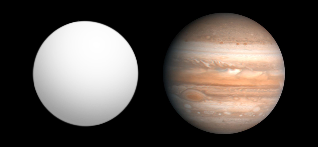 Comparison of best-fit size of the exoplanet HAT-P-20 b with the Solar System planet Jupiter, as reported in the Open Exoplanet Catalogue[1] as of 2010-09-30. ↑ Open Exoplanet Catalogue (2010-09-30). Retrieved on 2010-09-30.